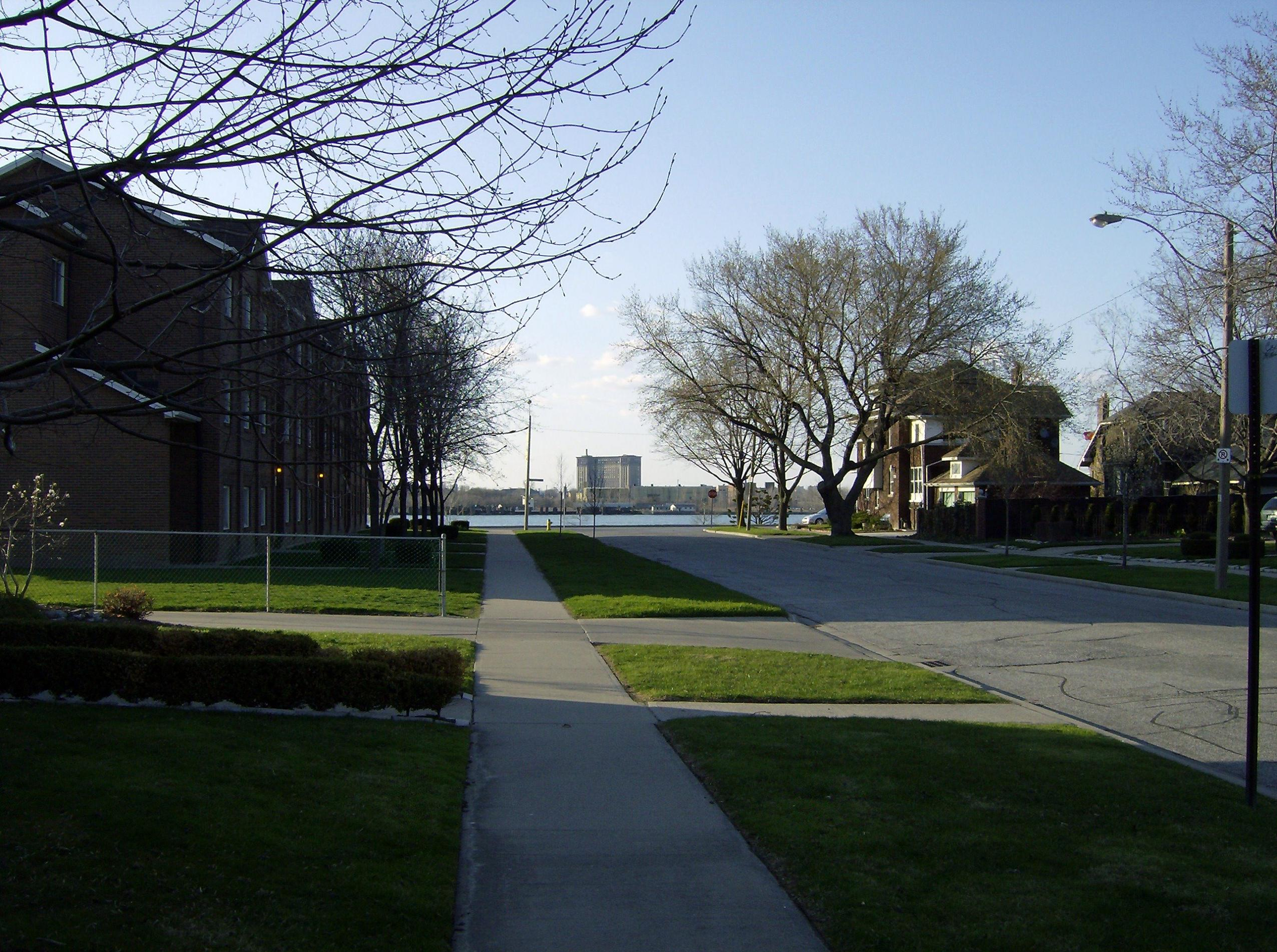 self made